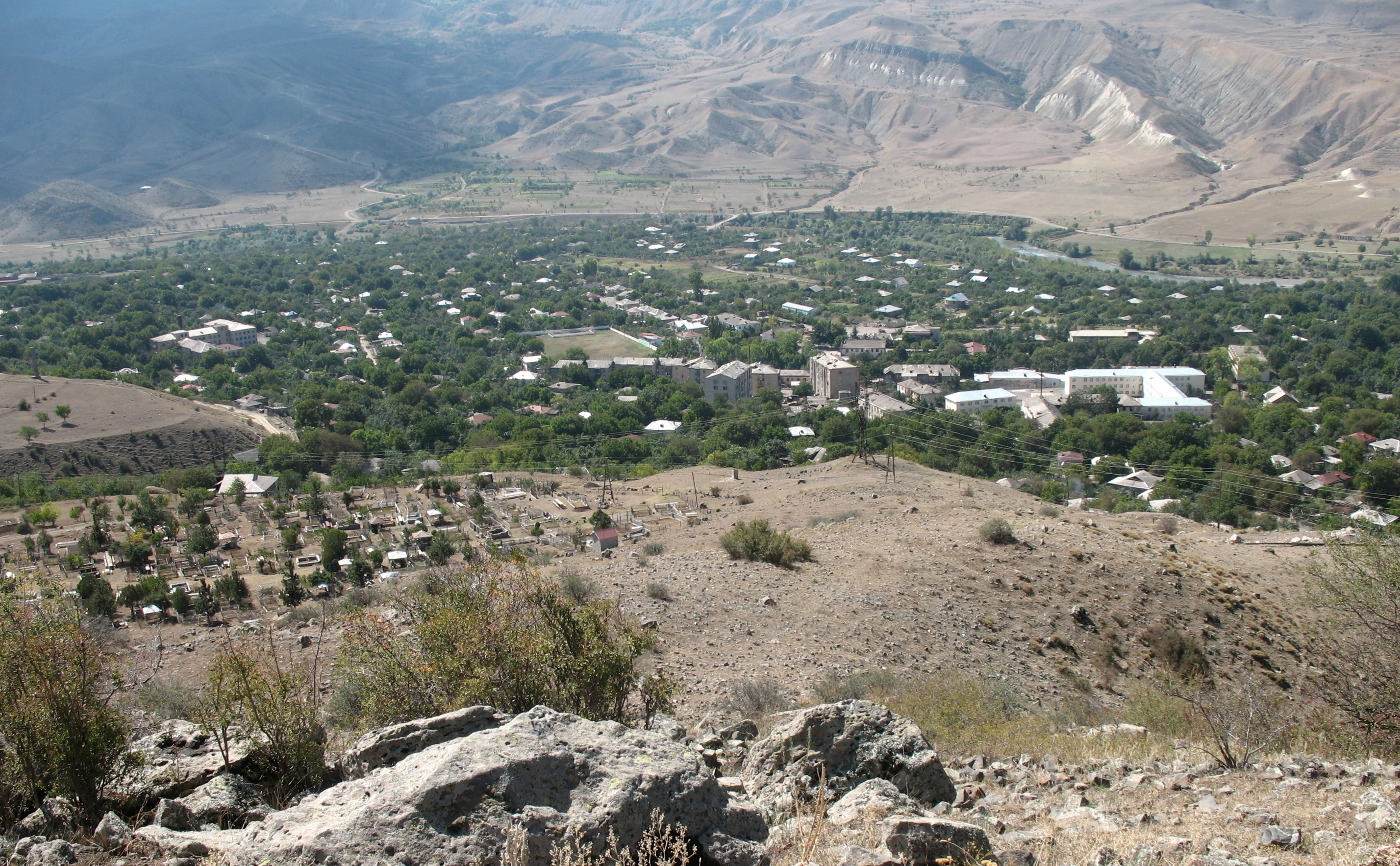 view to Aspindza